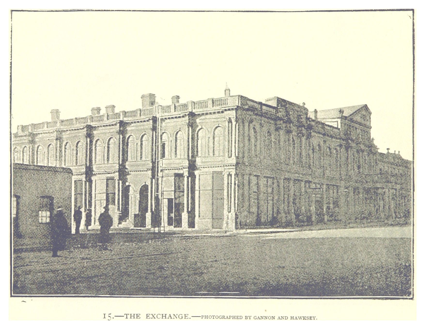 The (first) Johannesburg Stock Exchange (JSE) Building, founded on 8th November 1887 by B.M. Woollan. The establishment of the JSE at this time made it the oldest stock exchange facility in the subcontinent.